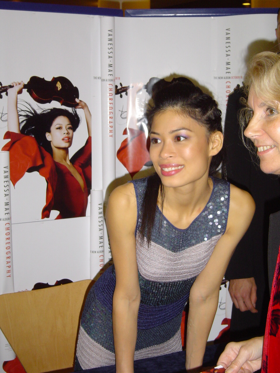 Vanessa-Mae at Royal Festival Hall, London